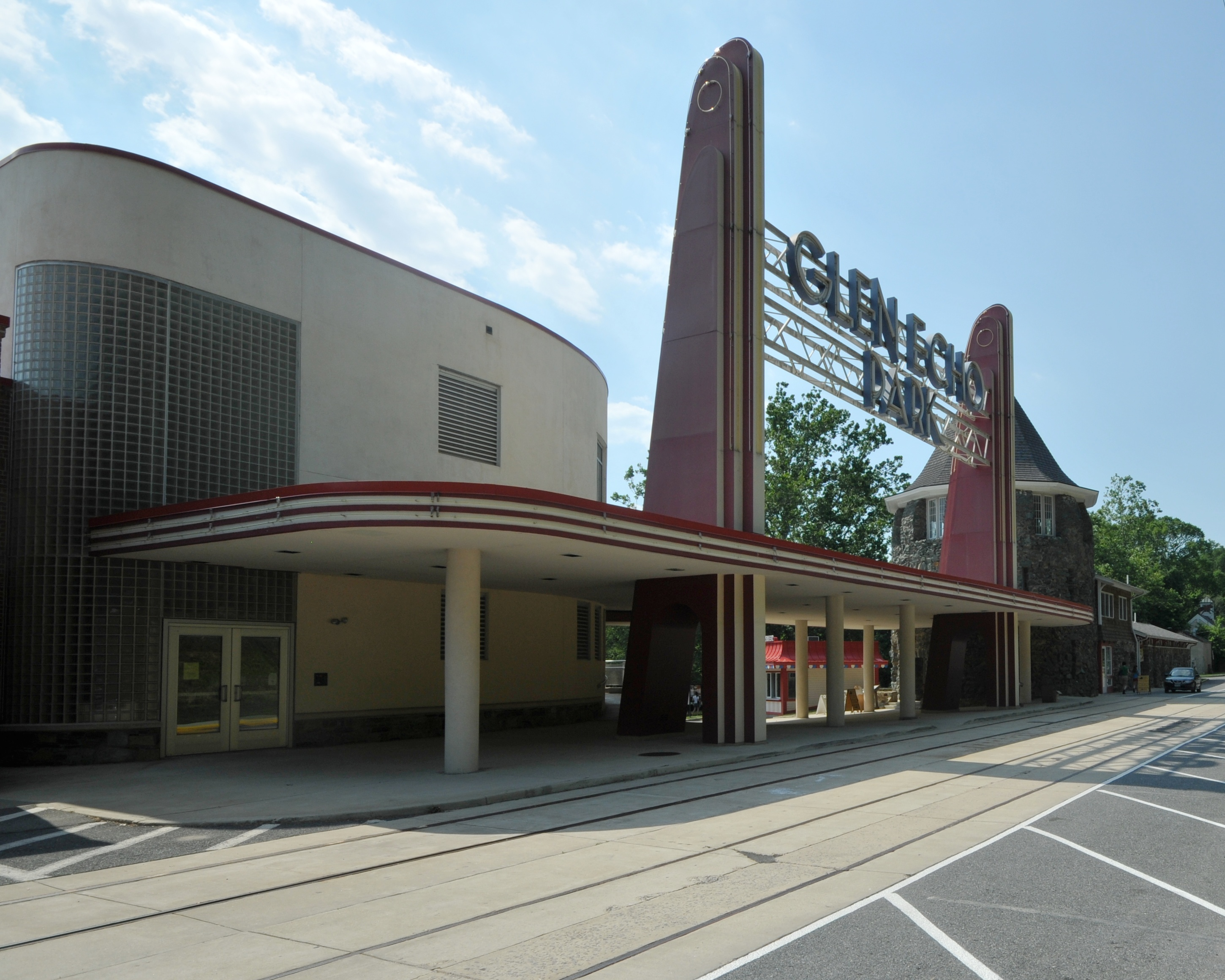 The main entrance to Glen Echo Park. You can see the trolley rails came right up to the entrance.